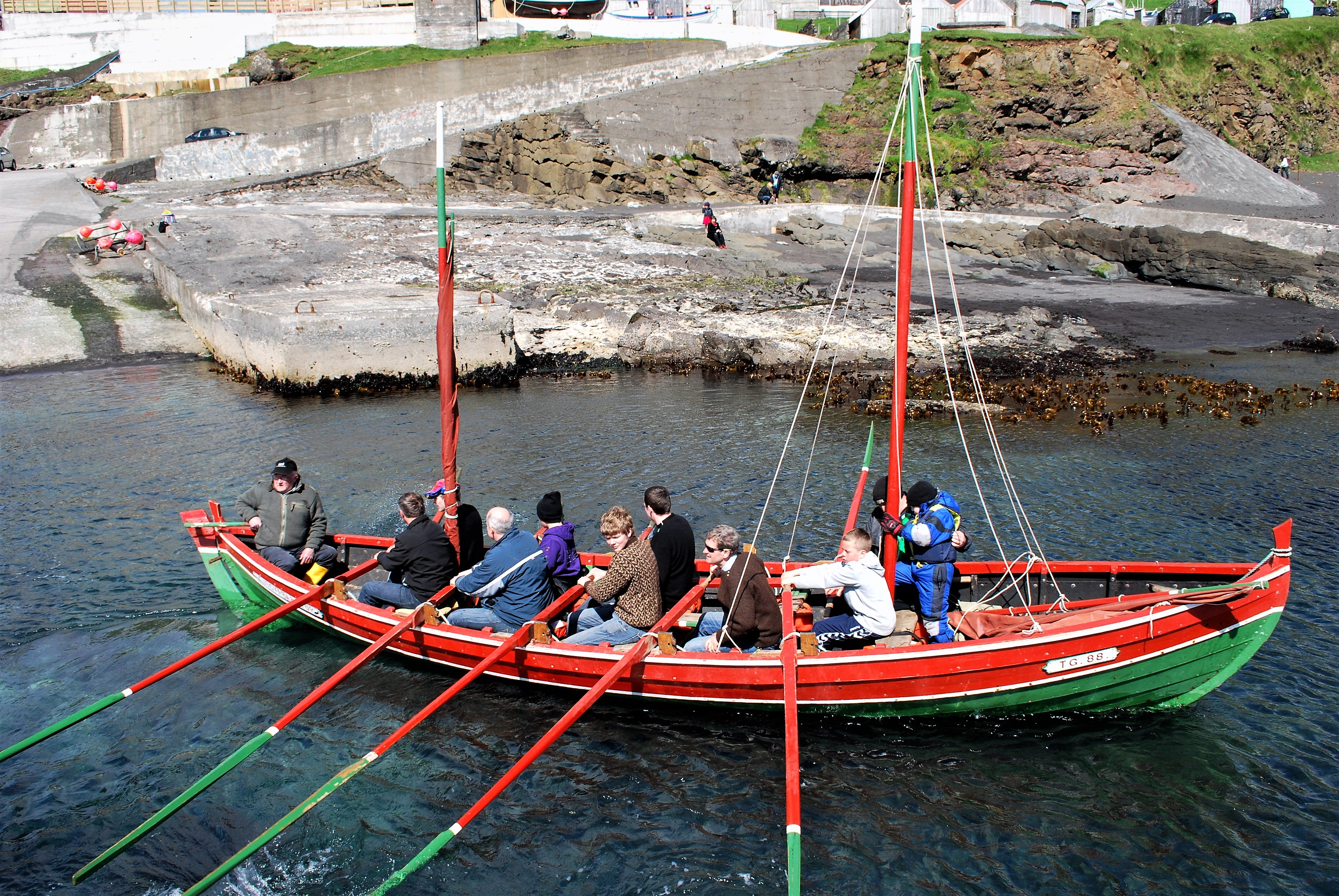 Old faroese boat from Vágur, in Sumba, Faroe Islands